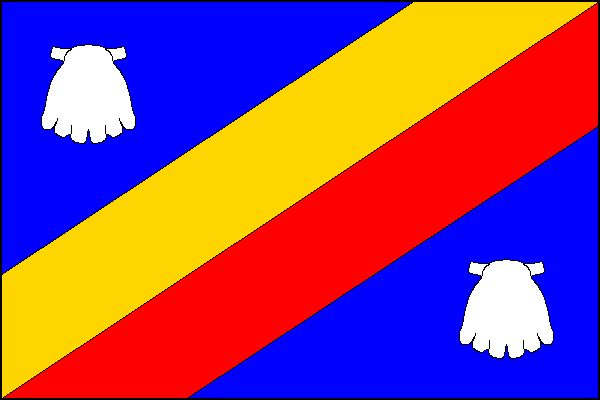 Municipal flag of Církvice village, Kutná Hora District, Czech Republic.